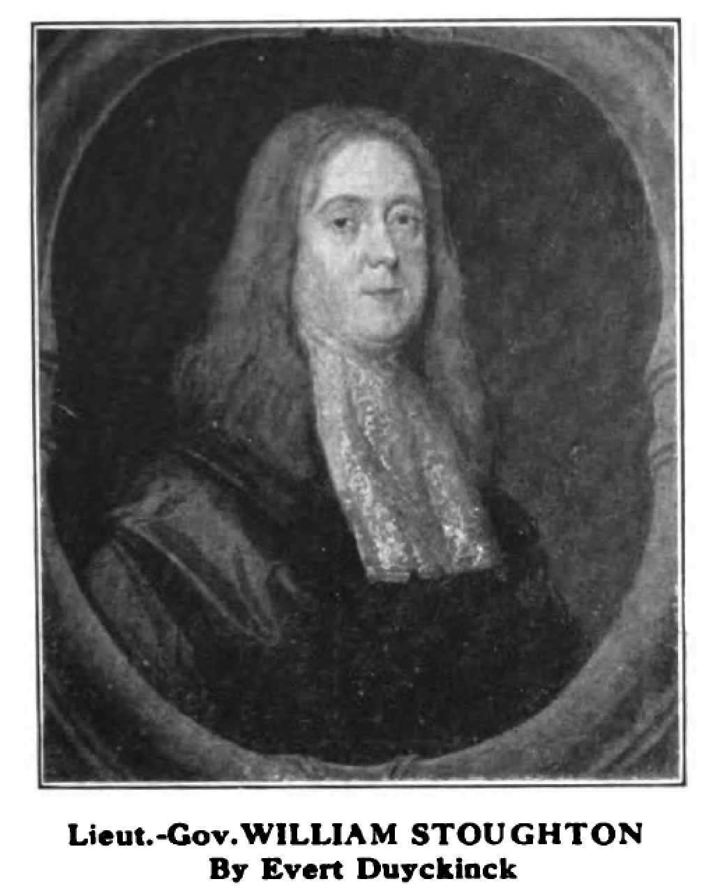 Portrait of a Man This black-and-white reproduction of an oil painting was published in "Old-time New England," (The Bulletin of the Society for the Preservation of New England Antiquities), Volume XI, No. 4, Serial No. 24 (April 1921), in an advertisement by F. W. Bayley & Son, Copley Gallery, 103 Newbury St., Boston, MA, regarding "Care and Restoration of Pictures", p. viii. It was acquired by the Boston Athenaeum in 1920. The sitter in this painting has been incorrectly identified as William Stoughton, a colonial Lieutenant-Governor of Massachusetts, but according to Lily Pelekoudas in Special Collections the Boston Athenaeum (personal correspondence, Oct. 1, 2019): "This painting was determined to be of unclear provenance in the 1930s, as it was purchased in the 1920s from Frank Bayley who was suspected of fraud in the 30s and 40s- purchasing portraits of unknown sitters and selling them as "colonial" portraits of notable sitters. This discovery led the Athenaeum to remove its attribution to Duyckinck; it is now simply titled 'Portrait of a Man'." The false provenance of it was given in Massachusetts House Bill 1815 of 1924, "The provenance of the original was described as follows: it went to "his nephew, Lt. Governor William Tailer, son of his sister Rebecca. From Tailer it descended to his grand-daughter, Elizabeth Byles, whose father was for many years known in Boston as pastor of the Hollis Street Church. From her it descended through her nephew, Thomas Gawen Brown, from whose grand-daughter Elizabeth Brown the Boston Athenaeum obtained it through Mr. Frank W. Bailey." (